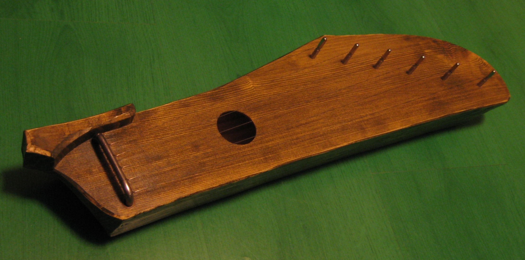 Estonian 6-stringed kannel made by Rait Pihlap in 2008.